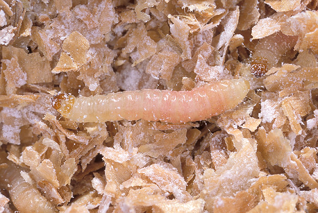 Original description: Larva of Plodia interpunctella, commonly known as the Indianmeal moth, a major pest of processed cereal products in the United States. Location: USA Keywords: pest, food, cereals